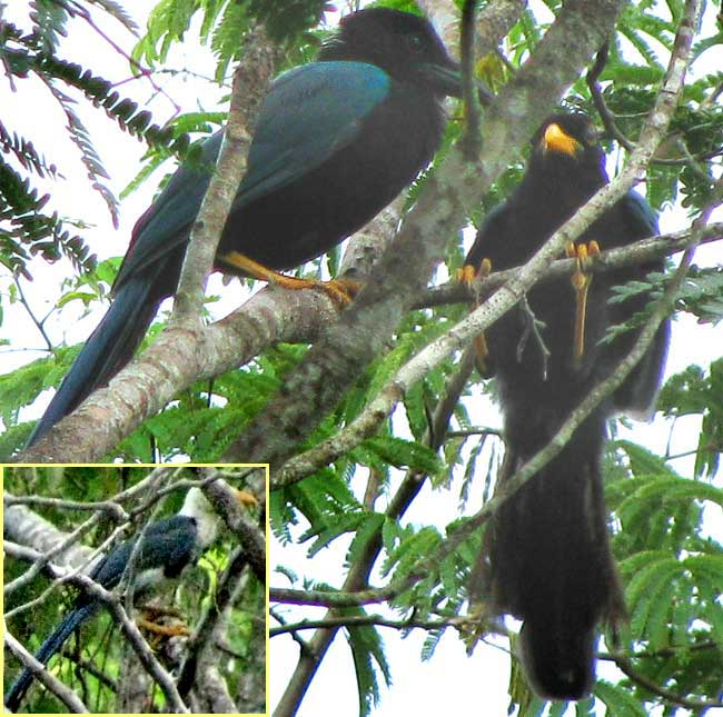 "The black-billed bird at the top, left exhibits the typical adult appearance. The yellow-billed bird at the right is an immature bird, the main differences being that his bill is yellow and the ring around his pupil -- his "orbital ring" -- is yellowish, instead of black as with the adult. The inset at the lower left shows another immature Yucatan Jay, but younger than the first one, with yellow beak and white head and lower parts. The yellow beaks of young birds become black by their third winter. Howell in A Guide to The Birds of Mexico and Northern Central America reports the mostly white plumage as seen only from July through September, so I was lucky to capture it."— extract from Jim's newsletter